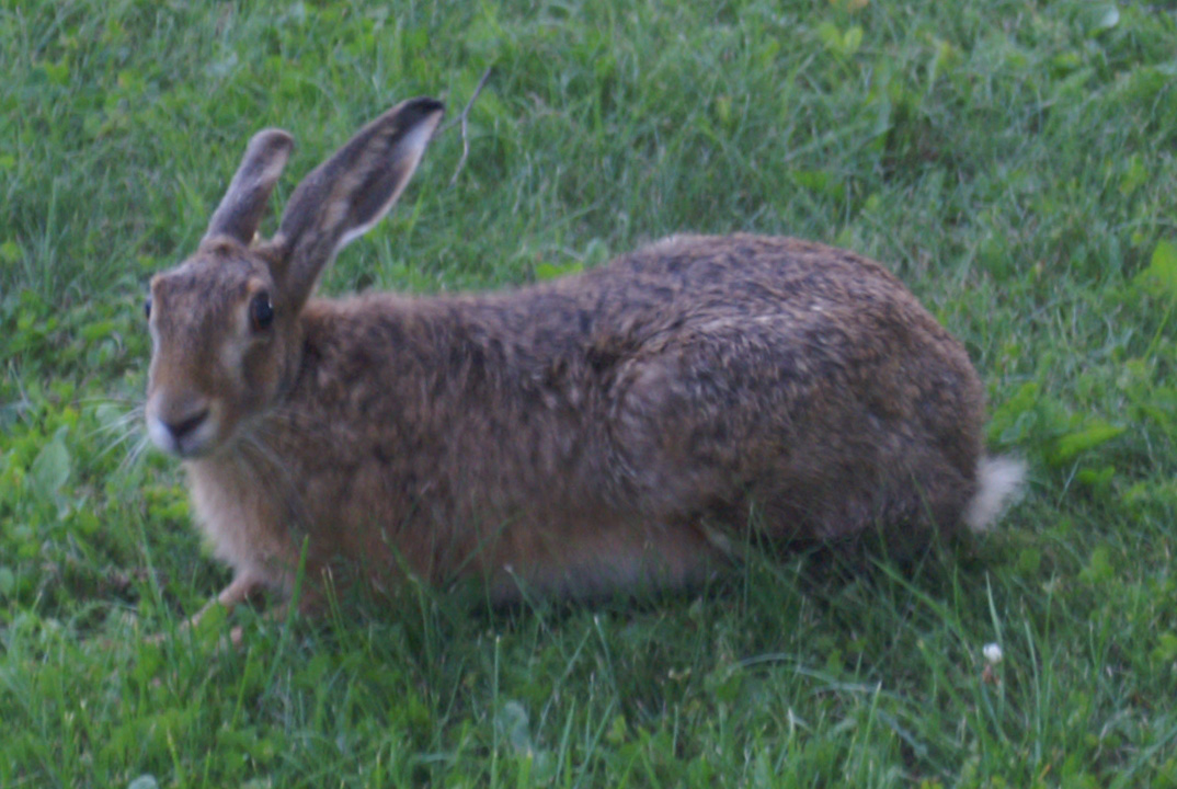 Description: Hare (Stockholm, Sweden). Capture date: 28th of August 2005 Source: Self-made Photographer: Alexander Augst